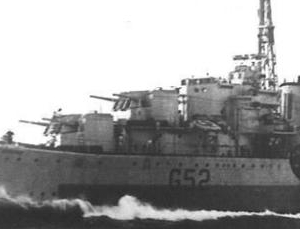 Photograph clip showing forward QF 4.7 inch Mk XI gun turrets on British destroyer HMS Matchless.